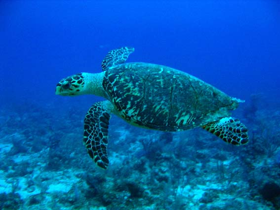 A hawksbill turtle (Eretmochelys imbricata) at the Black Hills dive site in Útila, Honduras.